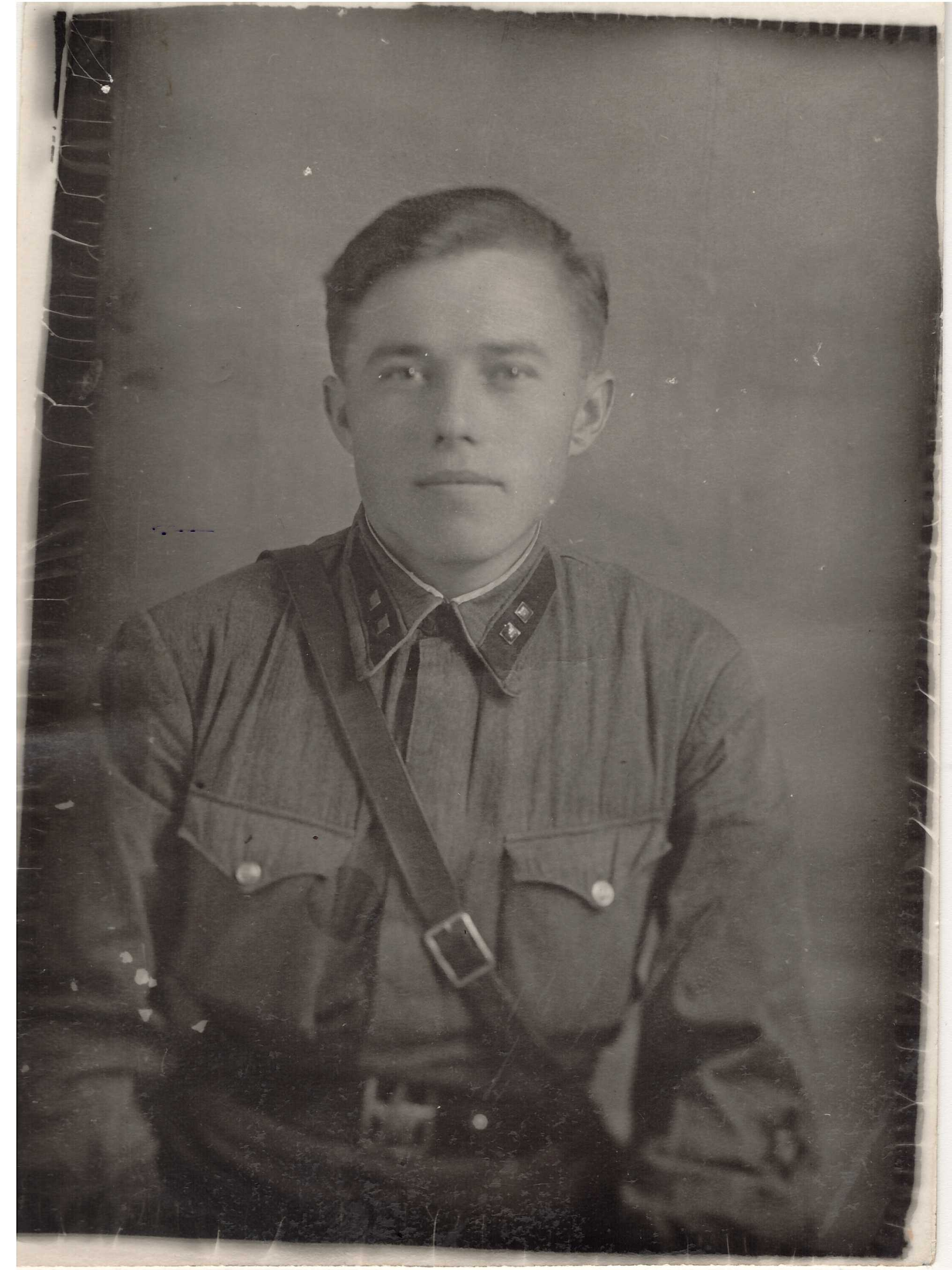 1939 young